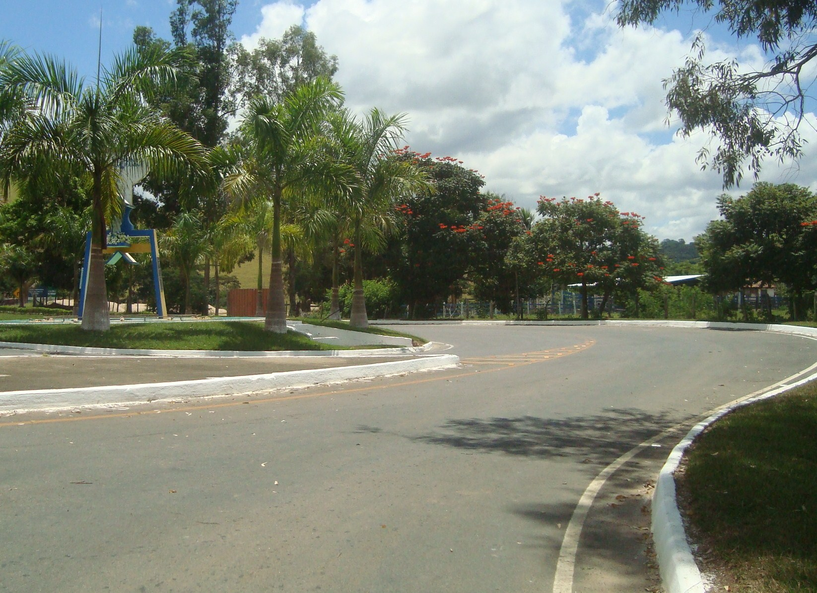 Road AMG-0505 in Rio Pomba, near Silveirania, Minas Gerais, Brazil